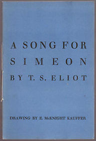 The cover from Faber & Gwyer, Ltd.'s first edition pamphlet of "A Song for Simeon" a 1928 poem by T. S. Eliot (1888-1965). This is No. 16 in a series of 38 pamphlets called Ariel Poems by several authors.